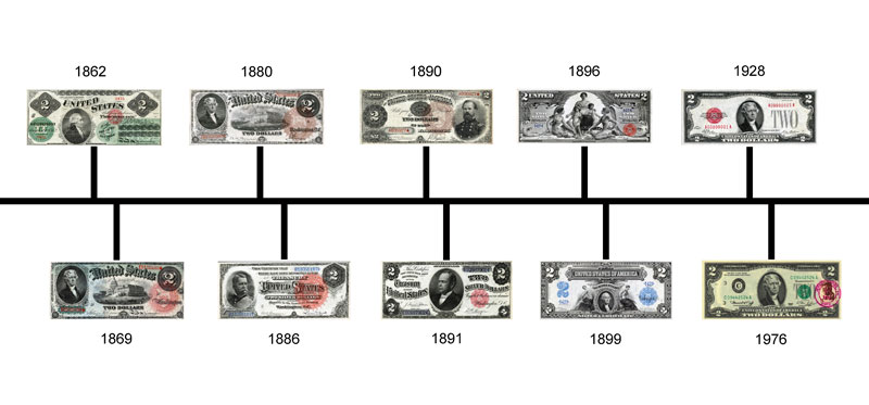 A comprehensive, visual illustration of the two-dollar bill throughout the history of the United States.